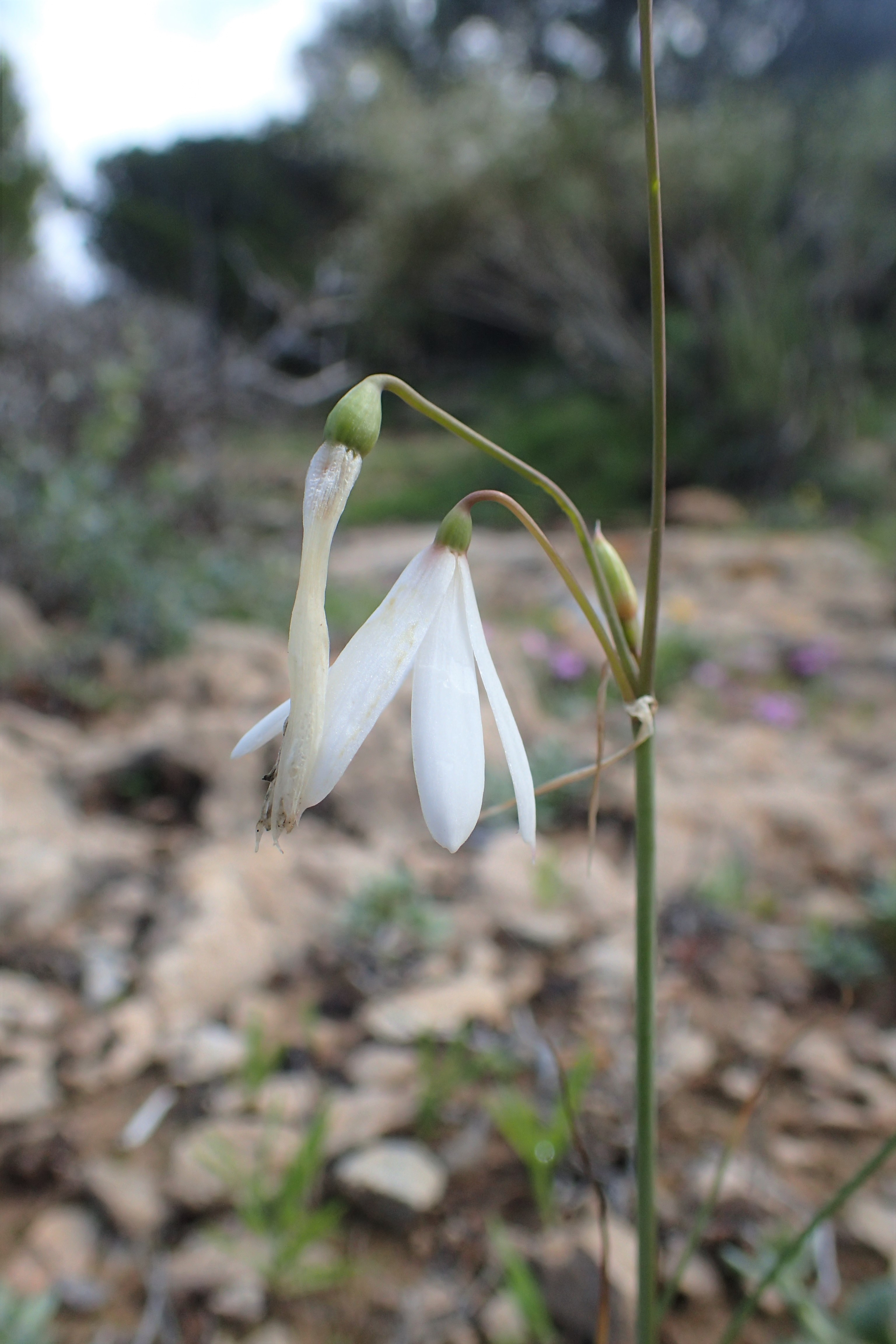 Acis trichophylla in Essaouria (Marrakesh-Safi, Morocco)